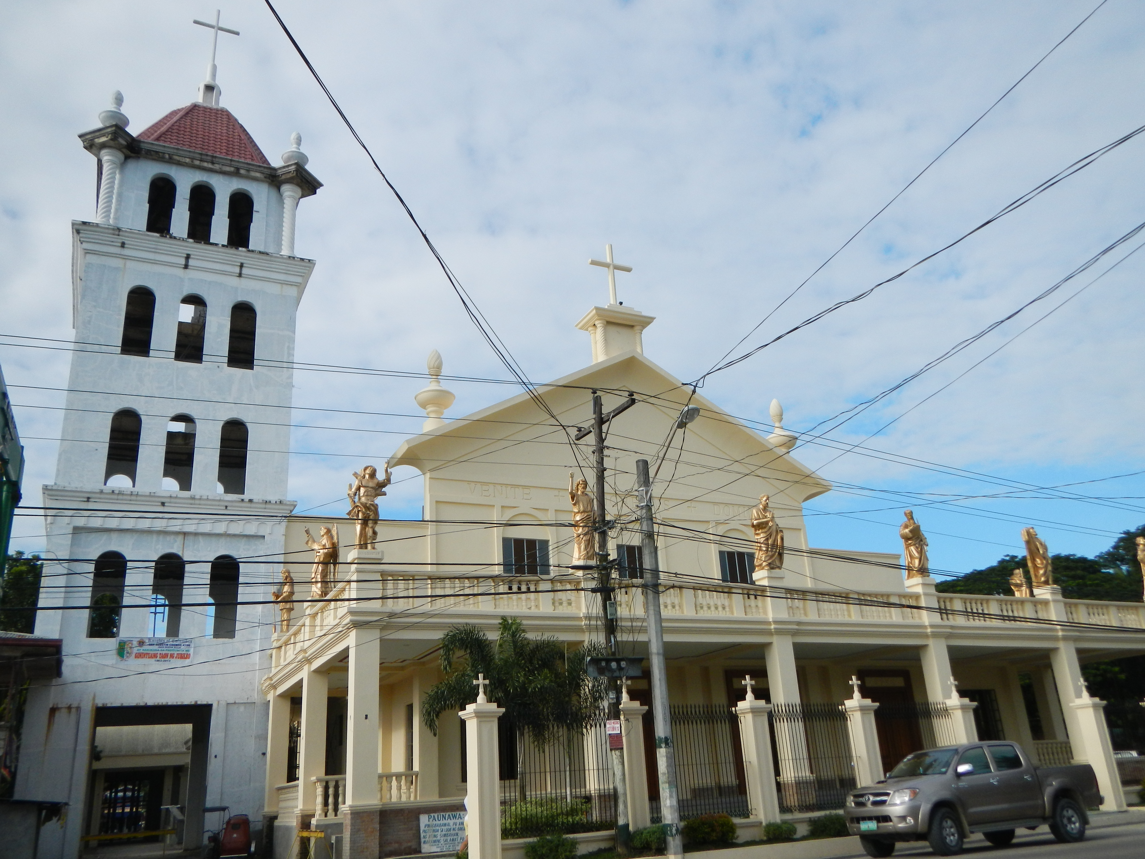 The New Parish Church of San Agustin, Jaen, Nueva Ecija[1]